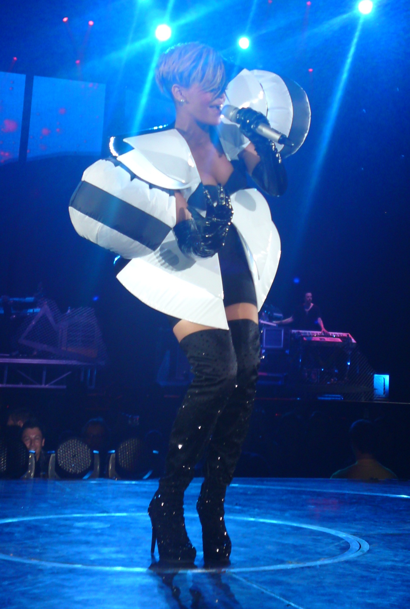 Rihanna performs "Umbrella" at her Last Girl on Earth Tour in Zurich.